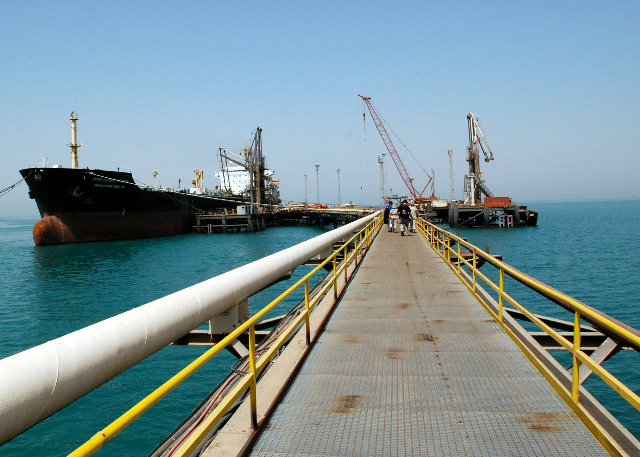 090328-N-0803S-013 PERSIAN GULF (March 28, 2009) M/T HAVILDAR ABDUL HAMID PVC, VWWY, IMO: 8316625, refuels alongside Iraq's Khawr Al Amaya Oil Platform.